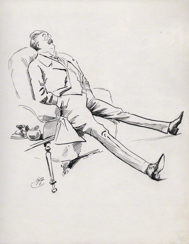 Portrait of the British publisher Gerald Duckworth by the artist Harry Furniss, circa 1923. Pen-and-ink, 15 1/8 in. x 12 3/8 in. (389 mm x 318 mm). Courtesy of the collection of the National Portrait Gallery, London.